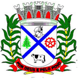 Brasão de Borebi